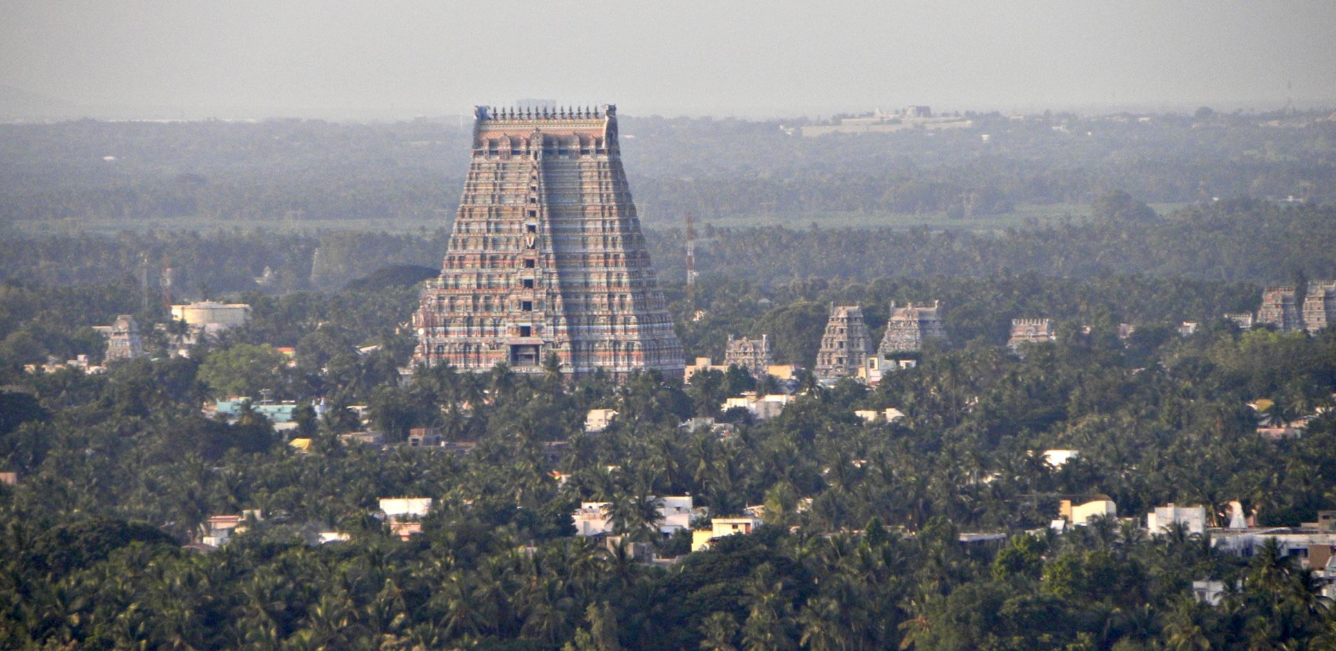 The Sri Ranganathaswamy Temple in Srirangam, Tiruchirapalli, Tamil Nadu, India